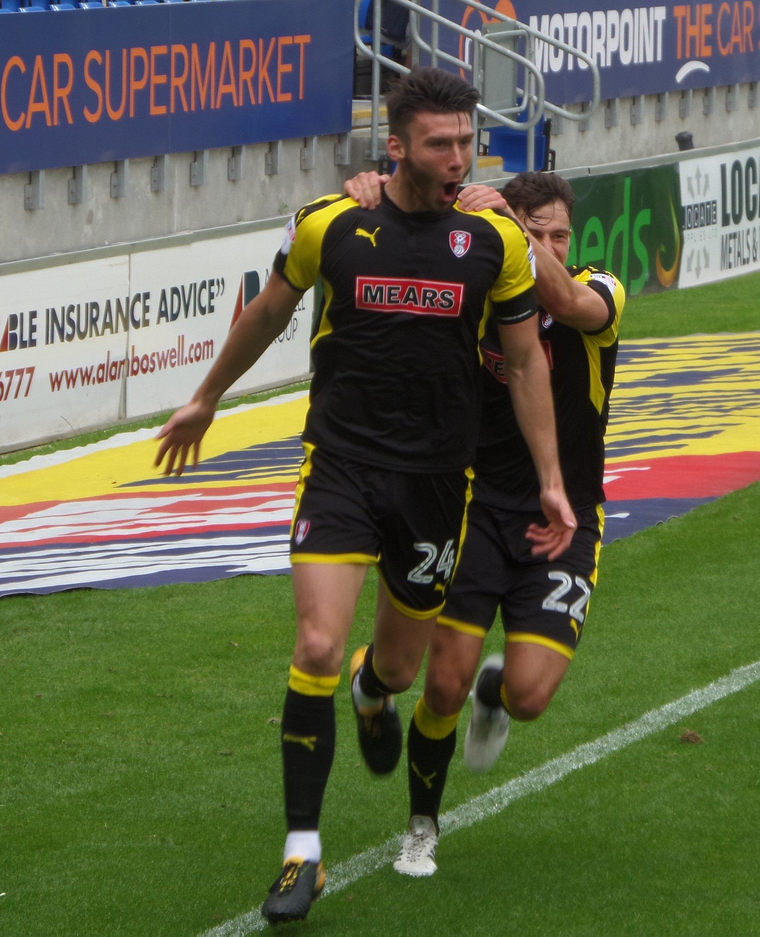 Kieffer Moore celebrating scoring a goal for Rotherham United in a game against Peterborough